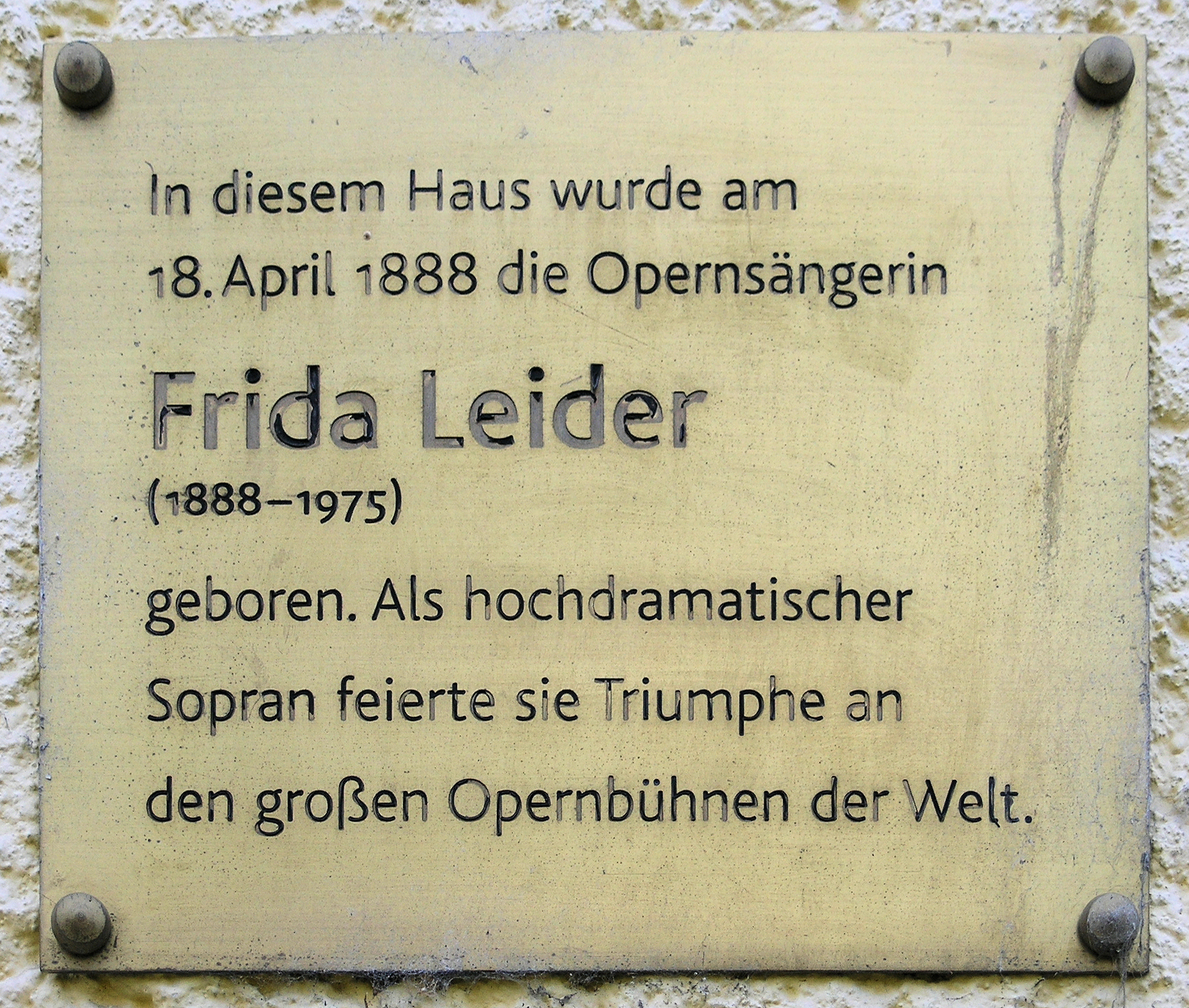 Memorial plaque, Frida Leider, Granseer Straße 9, Berlin-Mitte, Germany